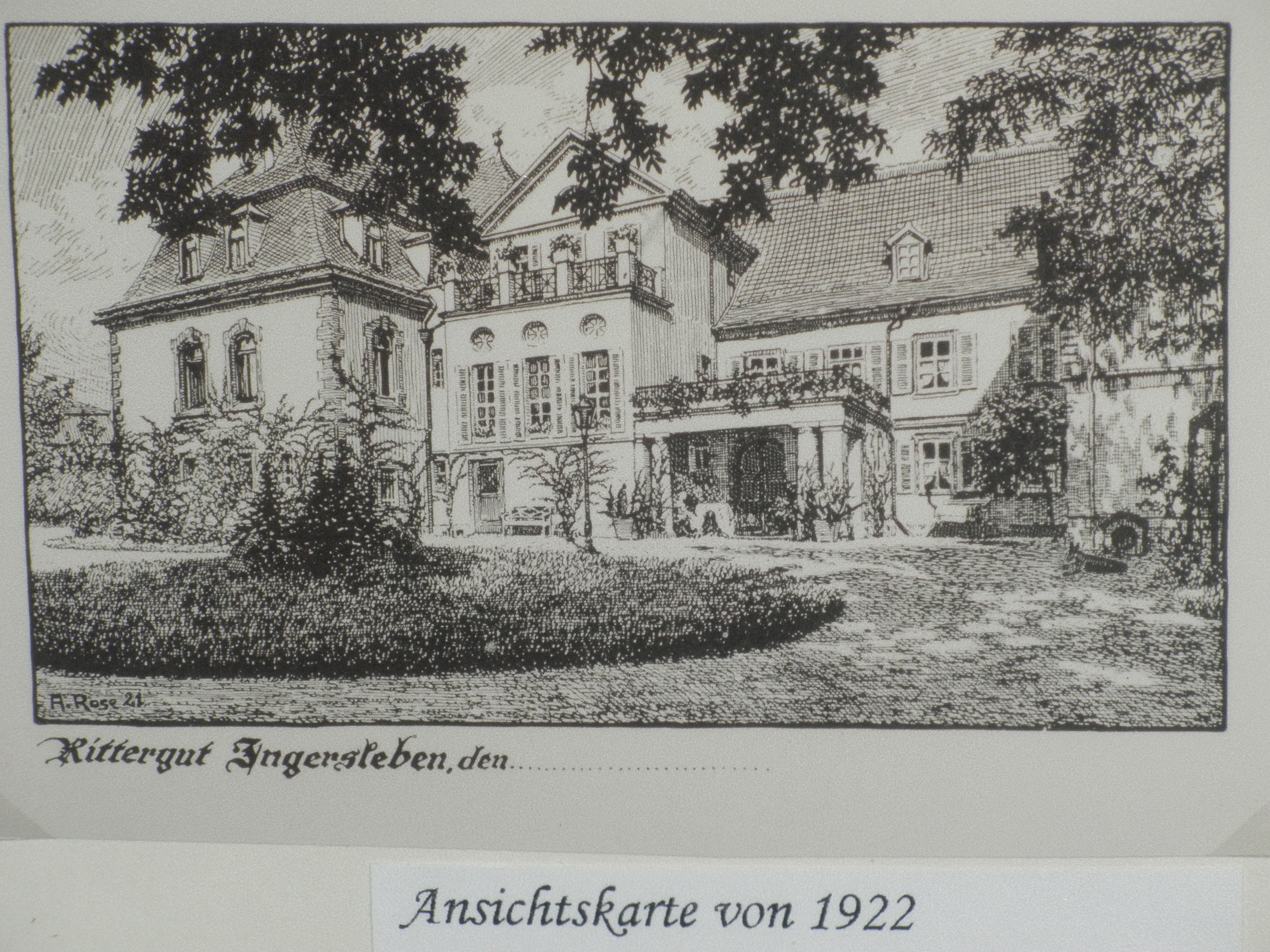 Former Castle in Ingersleben in Thuringia